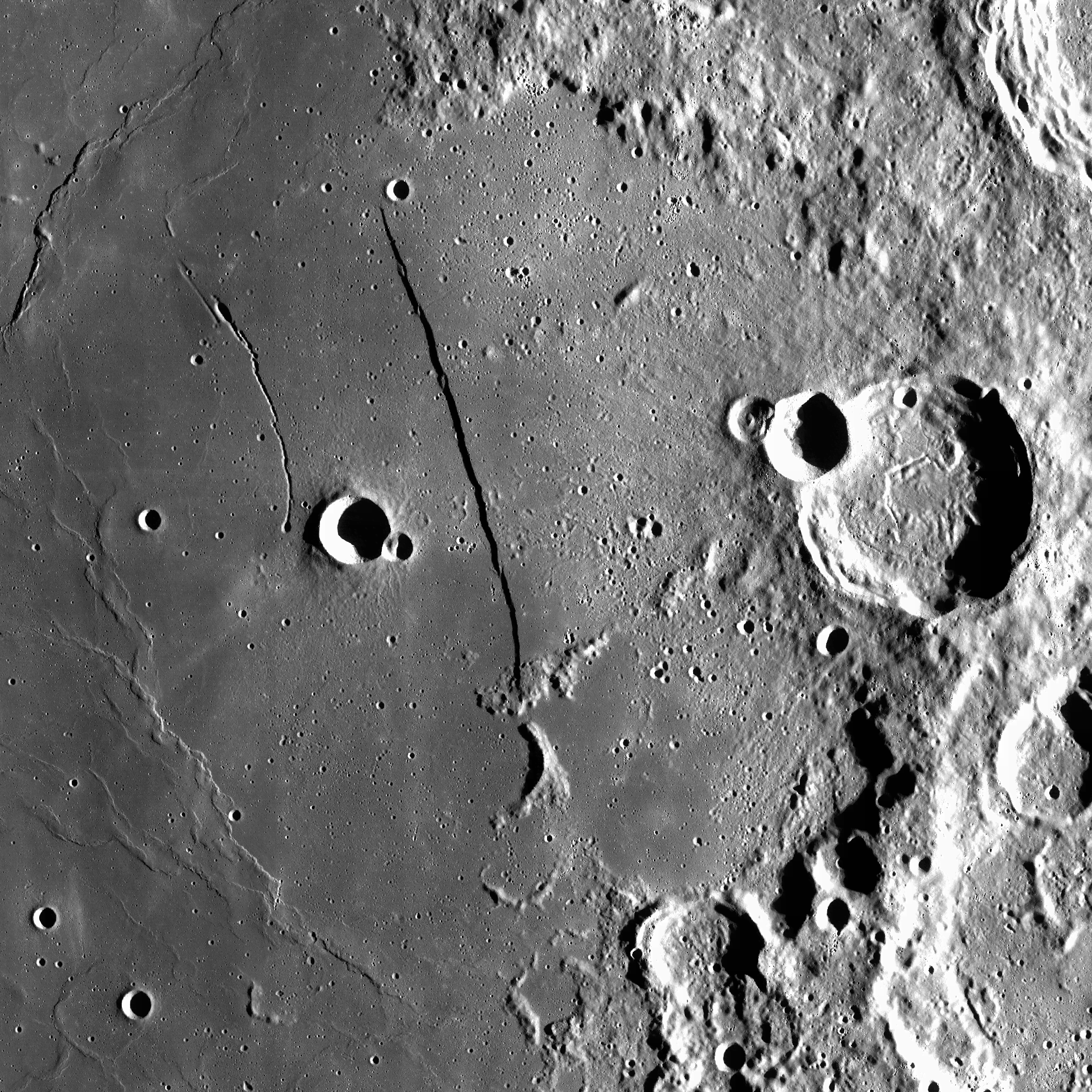 A 220-km-diameter crater on the Moon, informally known as "Ancient Thebit" (Nahm et al., 2011). It contains a fault Rupes Recta (casts a long shadow), Rima Birt (shorter furrow at the left), craters Birt (smaller at the left) and Thebit (bigger at the right). Mosaic of photos by Lunar Reconnaissance Orbiter, made with Wide Angle Camera. Size of the image is 250×250 km, north is up.